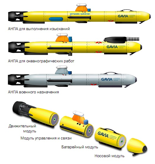 Device modules